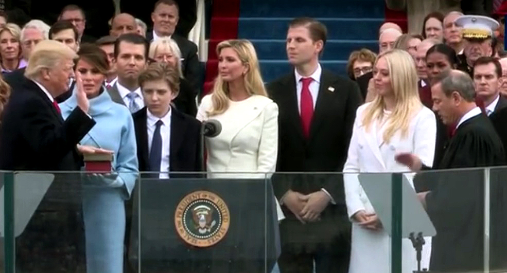 Screenshot of swearing in, left to right: Donald Trump, wife Melania, children Don Jr., Barron, Ivanka, Eric, and Tiffany, with Chief Justice John Roberts administering oath